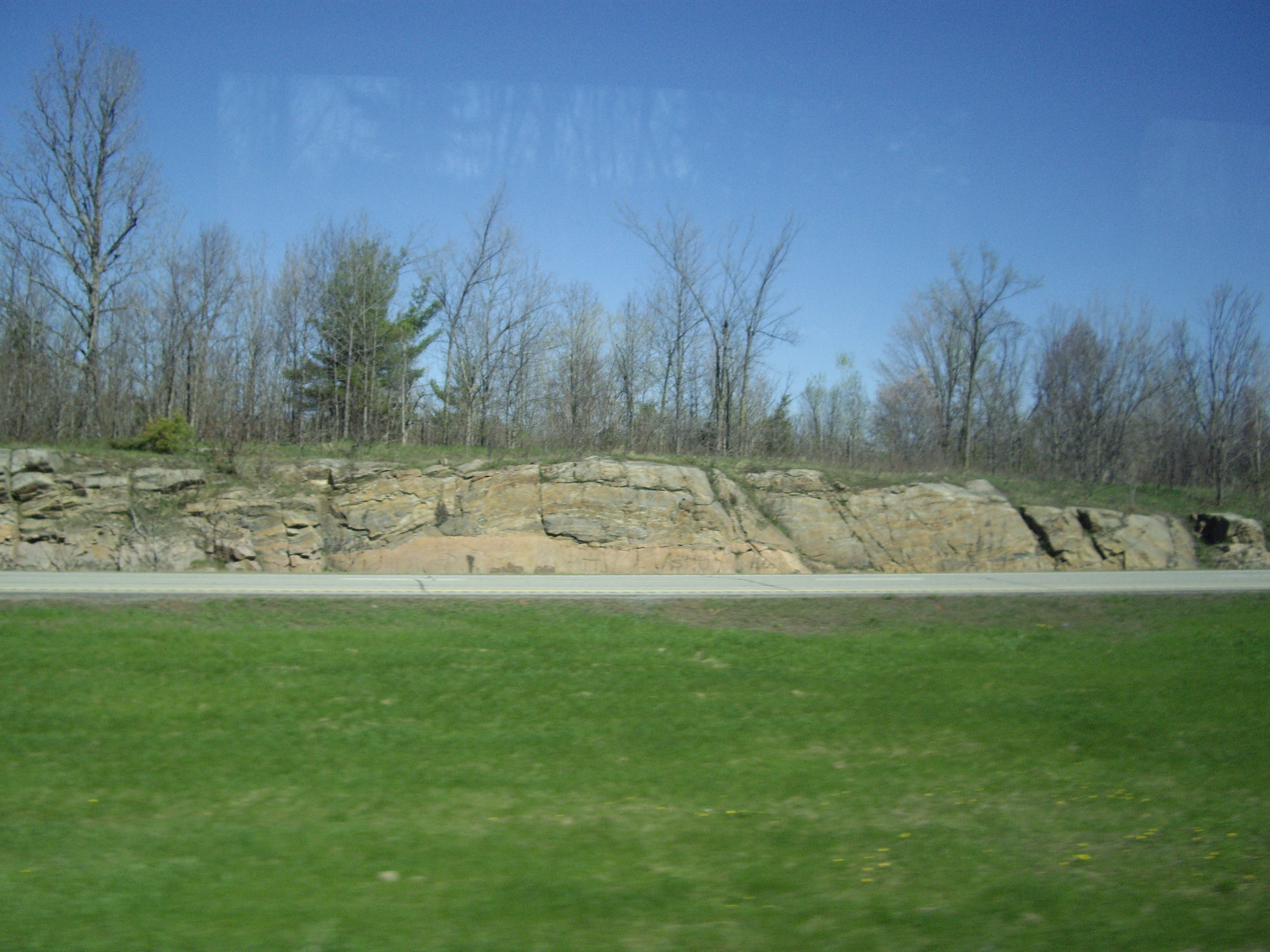 Canadian Shield landform